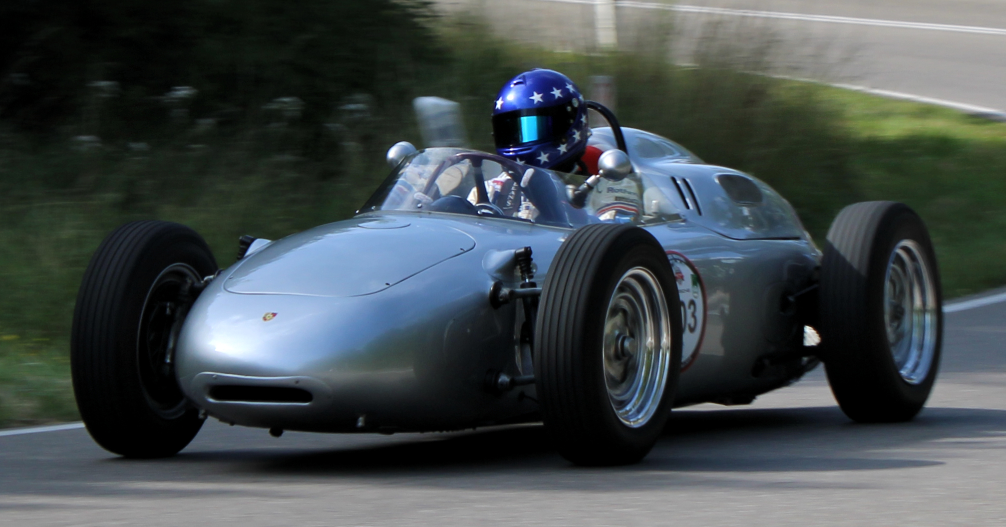 Porsche 718 Formel 2 (1960) at Solitude Revival 2019